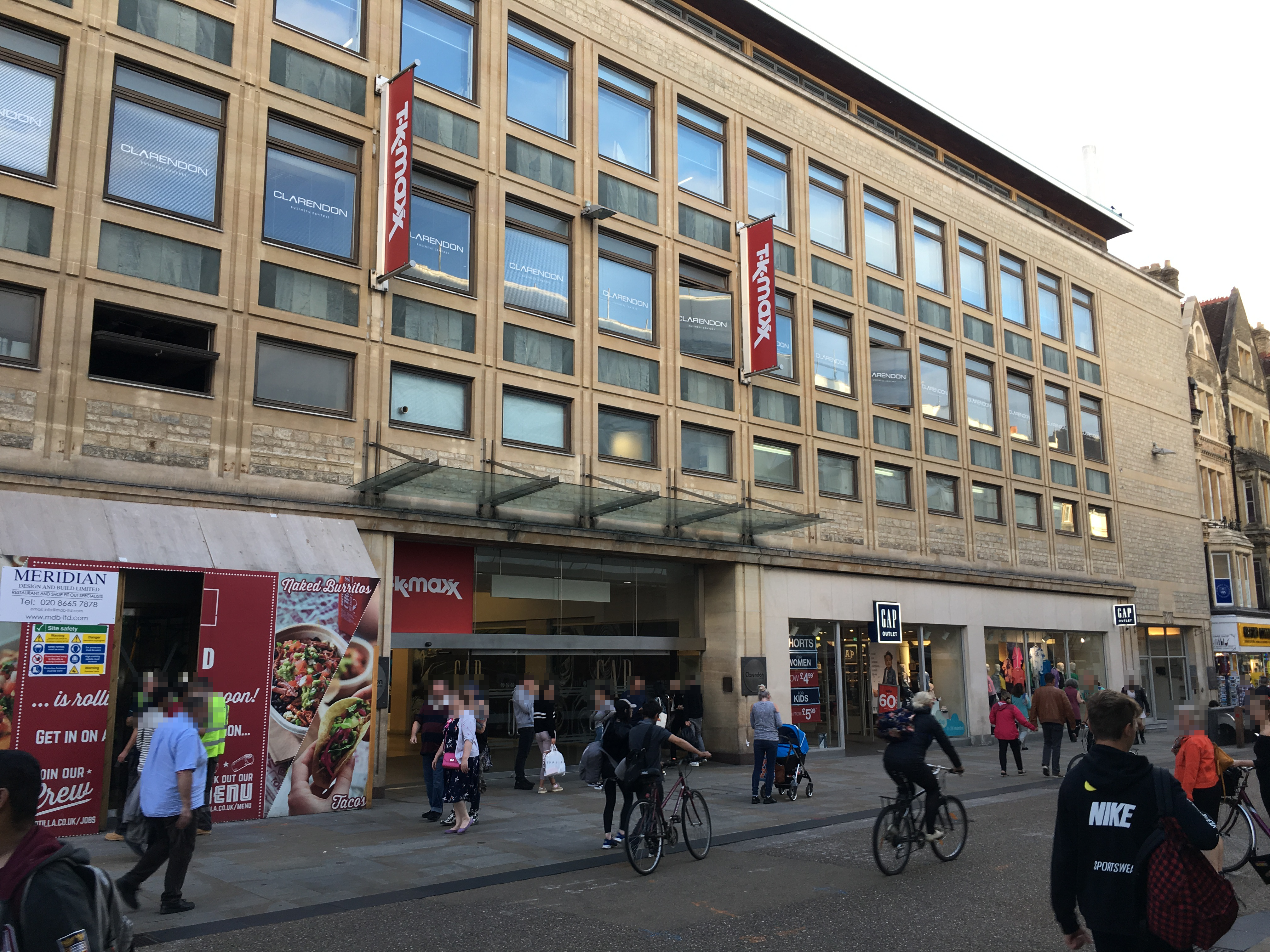 The front of the Clarendon Centre, from Cornmarket Street, taken in September 2019. The Clarendon House office block is above; the whole building used to be a branch of Woolworths. People have been pixelated for privacy.